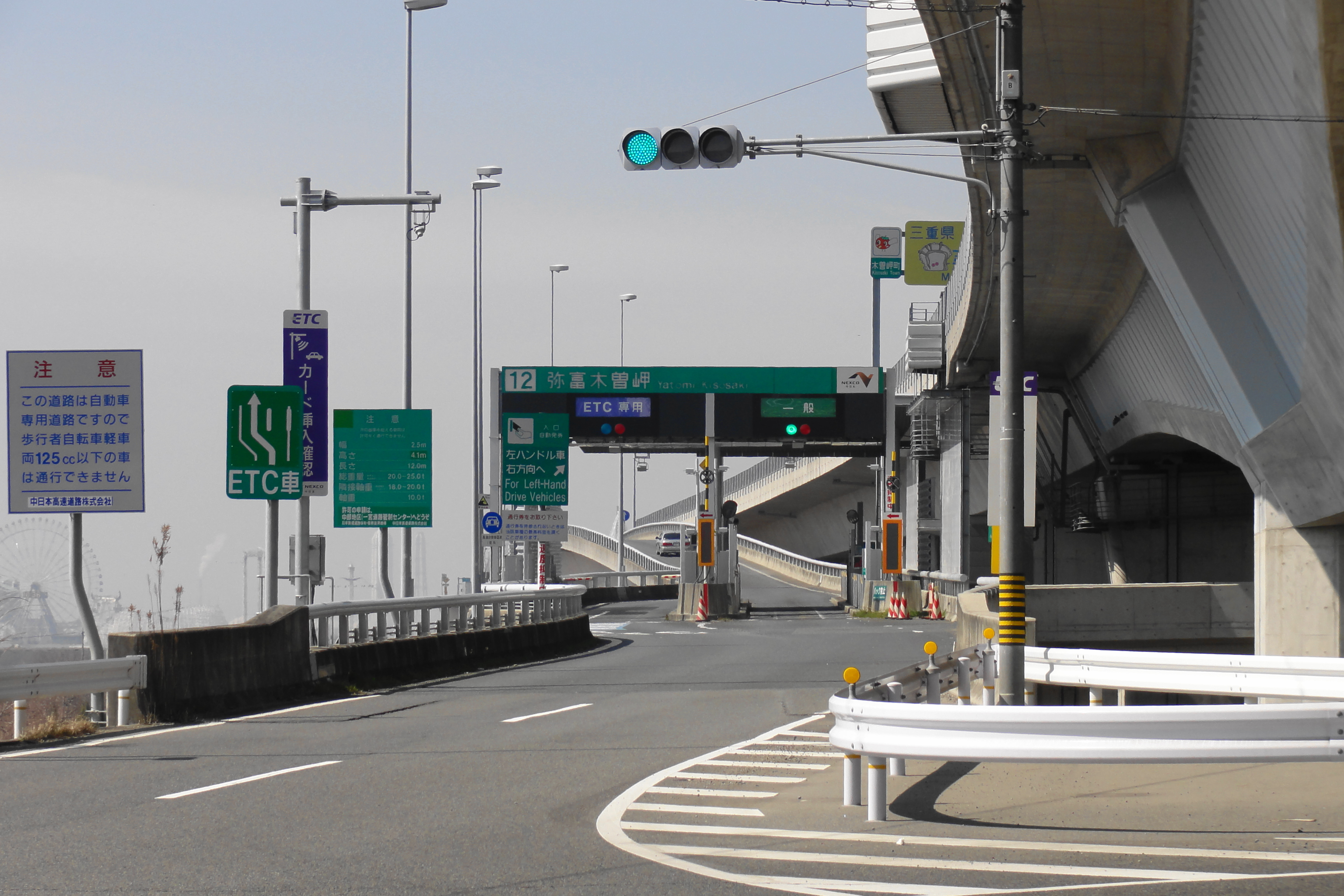 Yatomi-Kisomisaki Inter Change ,Aichi prefecture, Japan